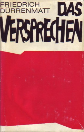 Book cover of Friedrich Dürrenmatt "Das Versprechen" 1958